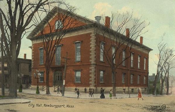 City Hall, Newburyport, MA; from a c. 1910 postcard.